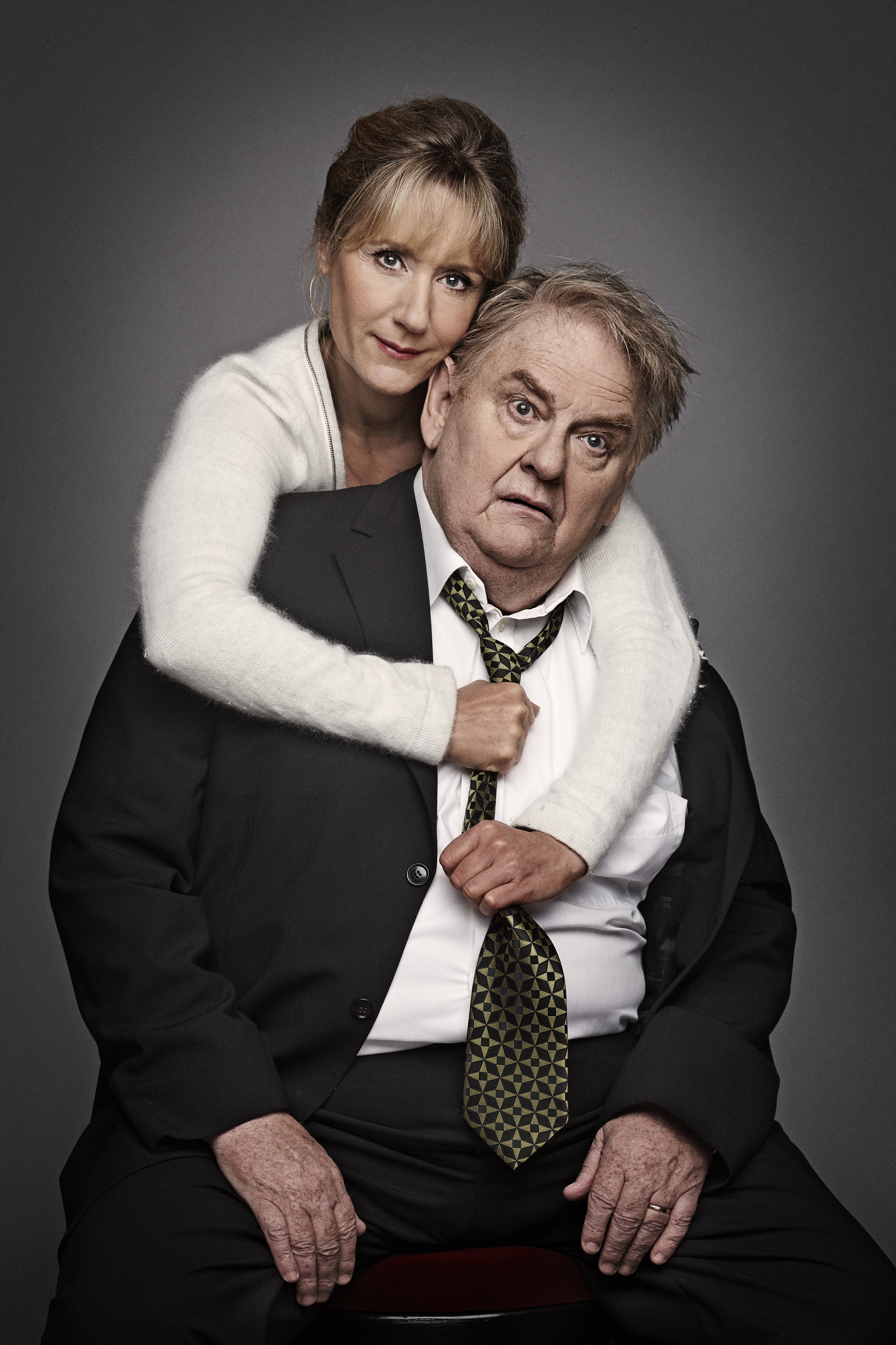 Ole Thestrup and Anette Støvelbæk in the Copenhagen theater Folketeatret's production of the play "Min far" (Le Père) by Florian Zeller.